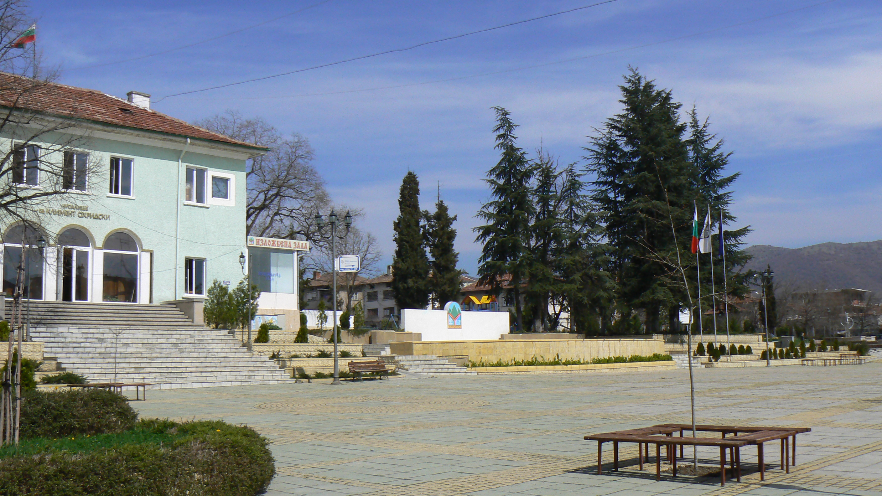 The central square of the town of Simitli, Bulgaria